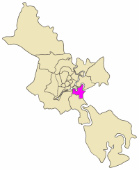 position of district 7 in an outline of the metropolitan area of HCMC (Ho Chi Minh City, Vietnam) - ISO code VN-F-HC. Keywords: map, outline, city, Ho Chi Minh City, HCMC, HCM, district 7, quan 7. It's also the center of Saigon South - a recent developed area of Ho Chi Minh City initiated by the Taiwanese real estate corporation Phu My Hung. District 7 has borders with District 2, 4 and Nha Be and is considered the most prosperous residential area in the city.